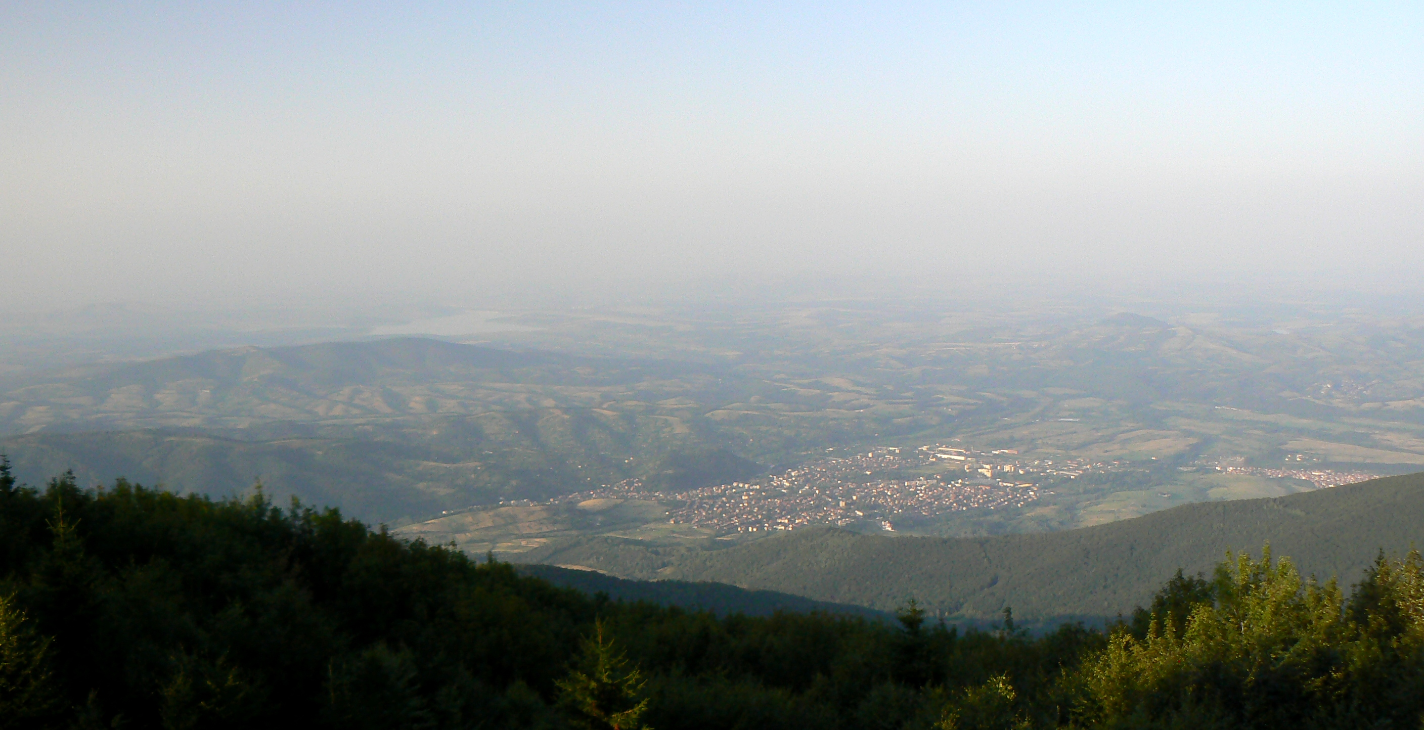 Berkovitza, Bulgaria, as seen from the height of new hut "Kom". At the far end: dam "Ogosta"